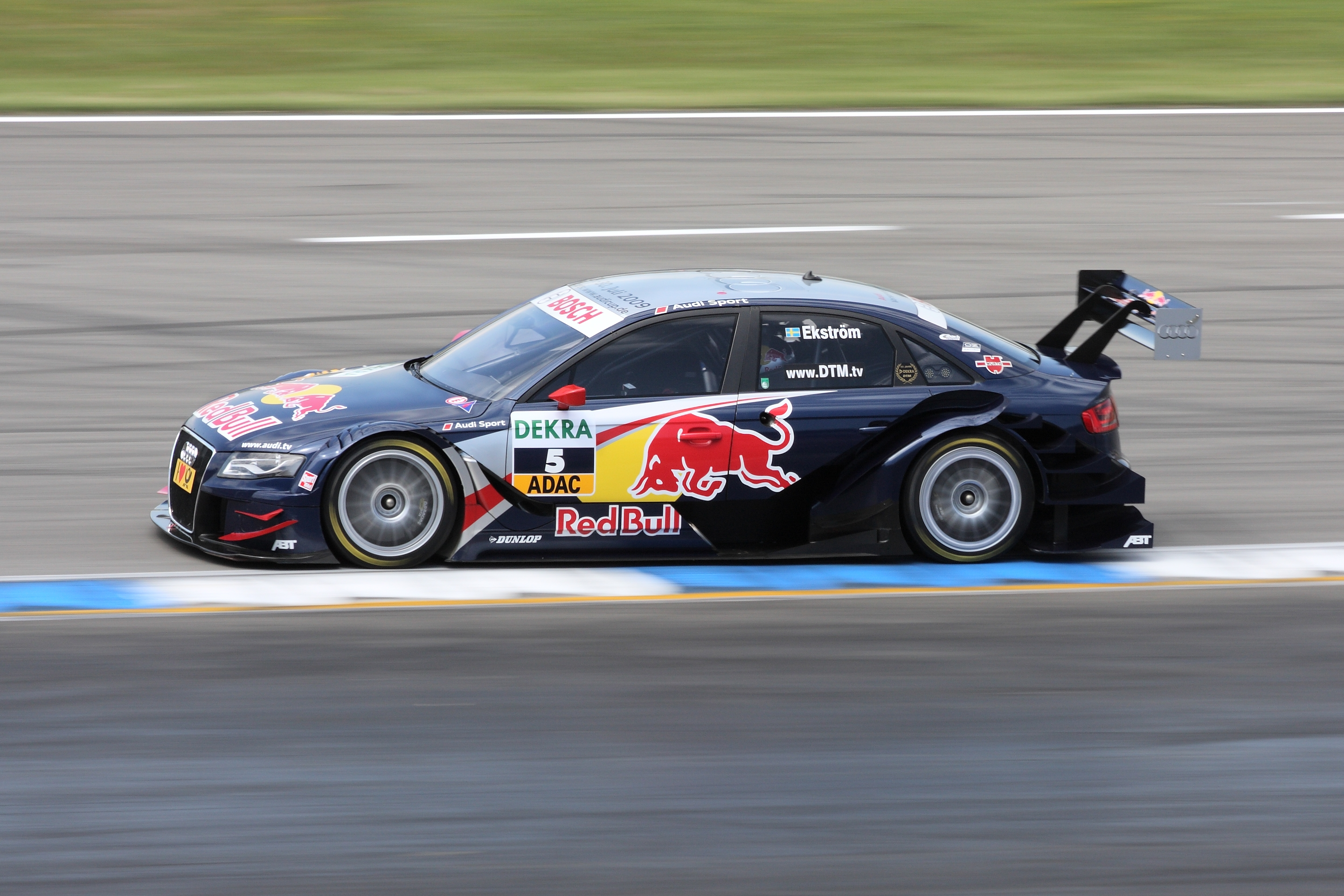 DTM racing car Audi Season 2009, Mattias Ekström (driver).